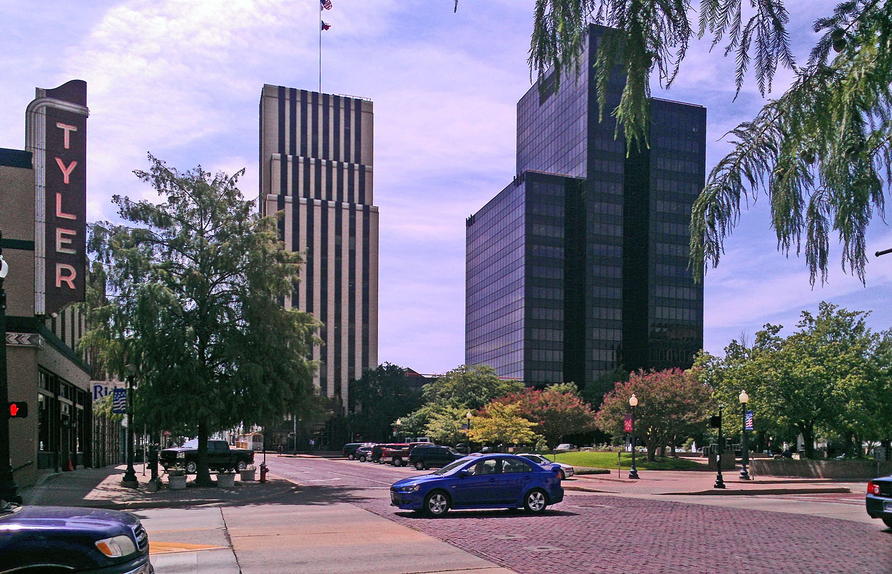 Tyler Texas skyline July 30, 2012